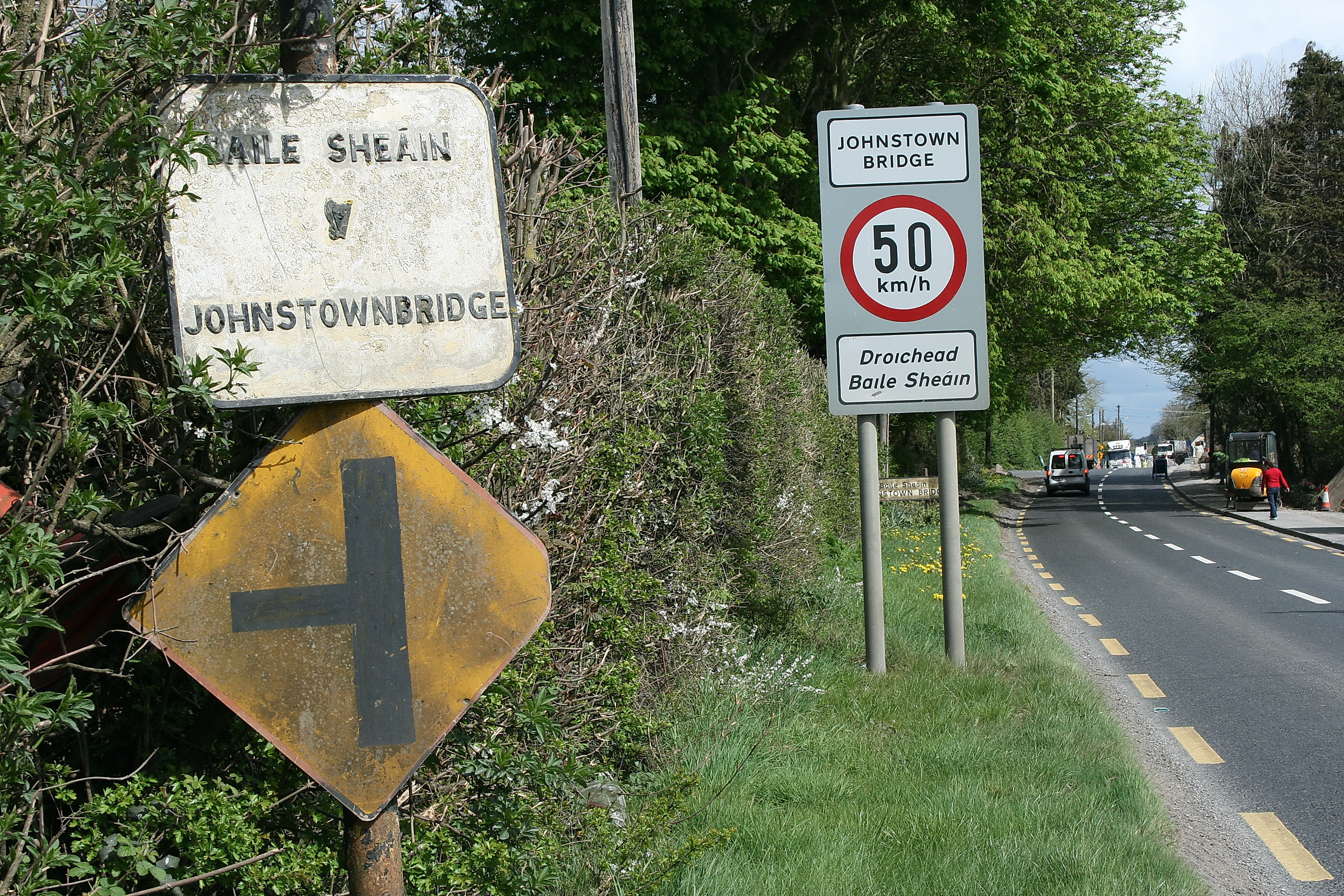 R402 Regional road at Johnstownbridge, County Kildare, Ireland